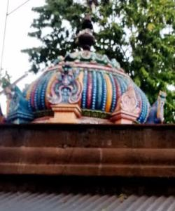 Thanjavursivaganga parksanjeevi anjaneyar temple தஞ்சாவூர் சிவகங்கைத்தோட்டசஞ்சீவி ஆஞ்சநேயர் கோயில்